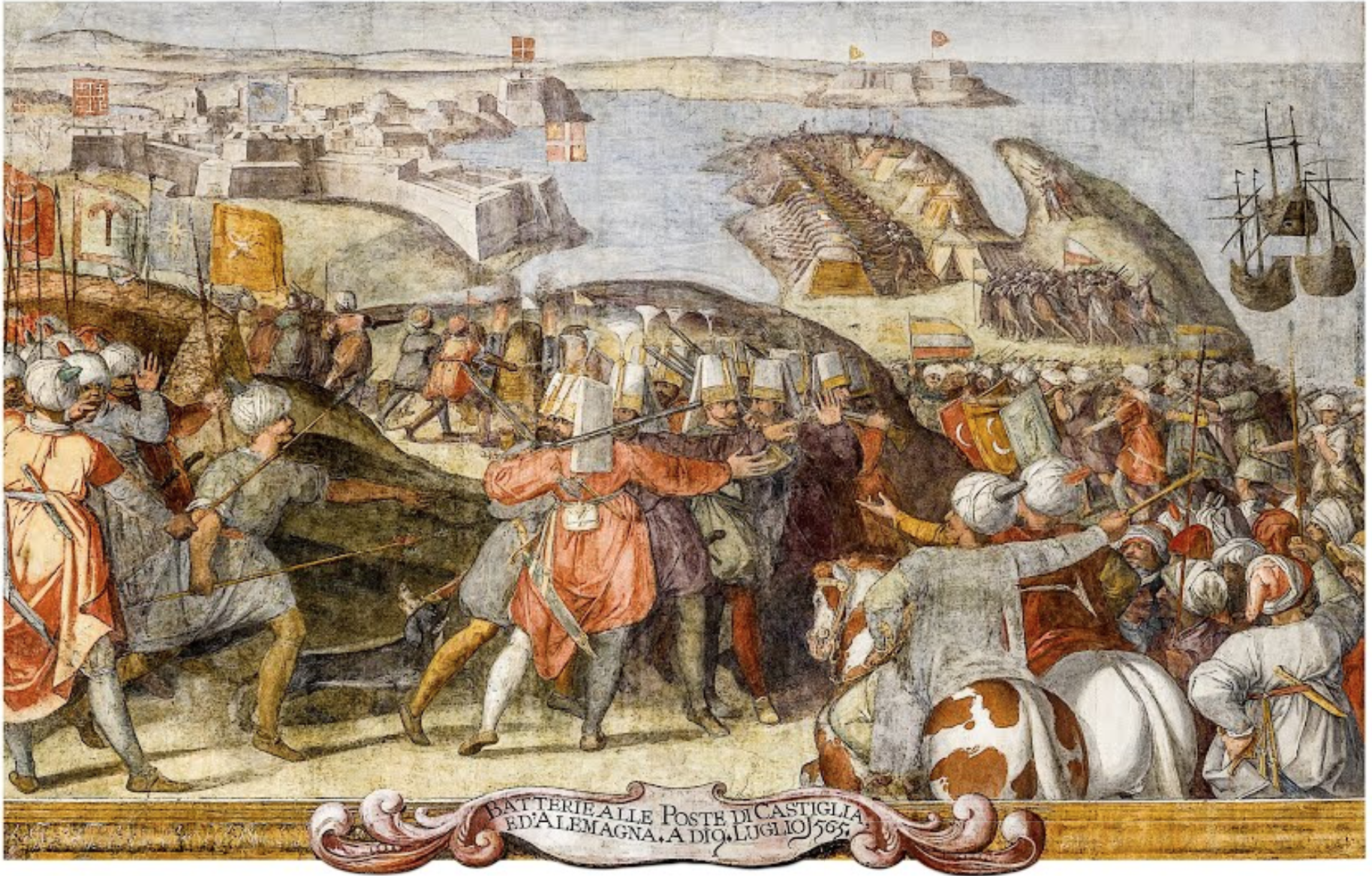 The bombardment of the bastion of Castille. Mustapha ordered an intense bombardment of Birgu.